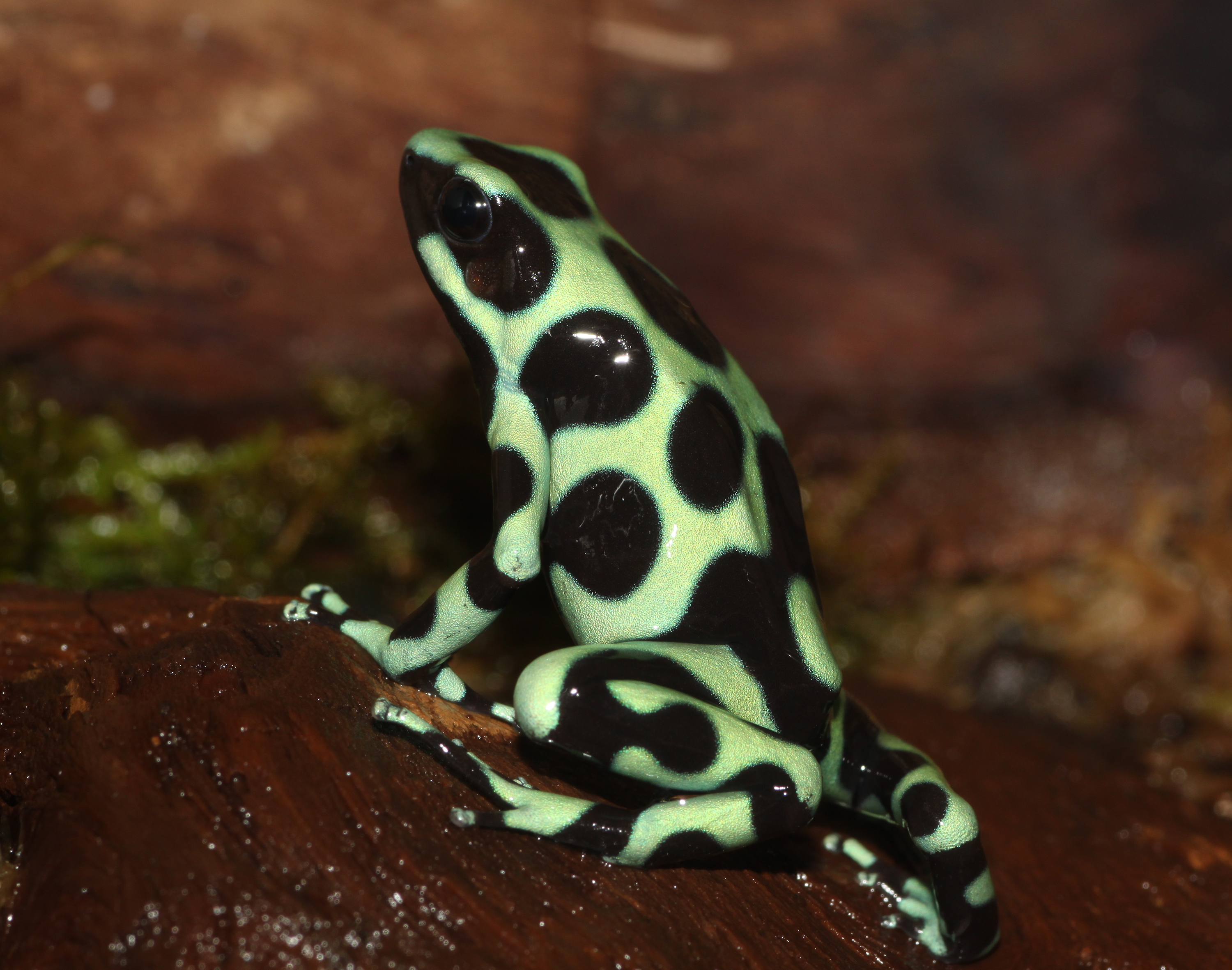 Green and Black Poison Dart Frog, Green and Black Poison Arrow Frog or Mint Poison Frog, Dendrobates auratus, Family: Dendrobatidae, Location: Germany, Stuttgart, Zoological Garden